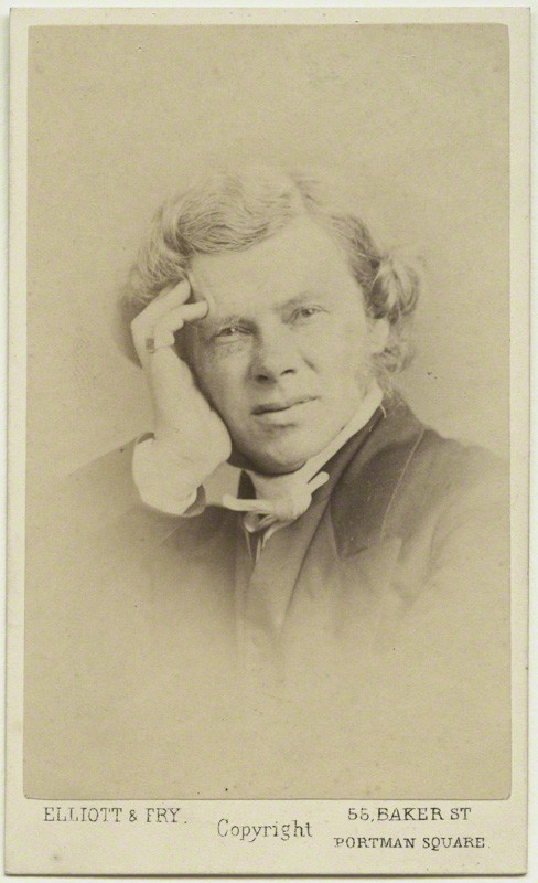 Photograph of John Saul Howson. Albumen carte-de-visite. 3 5/8 in. x 2 1/4 in. (92 mm x 57 mm) image size.